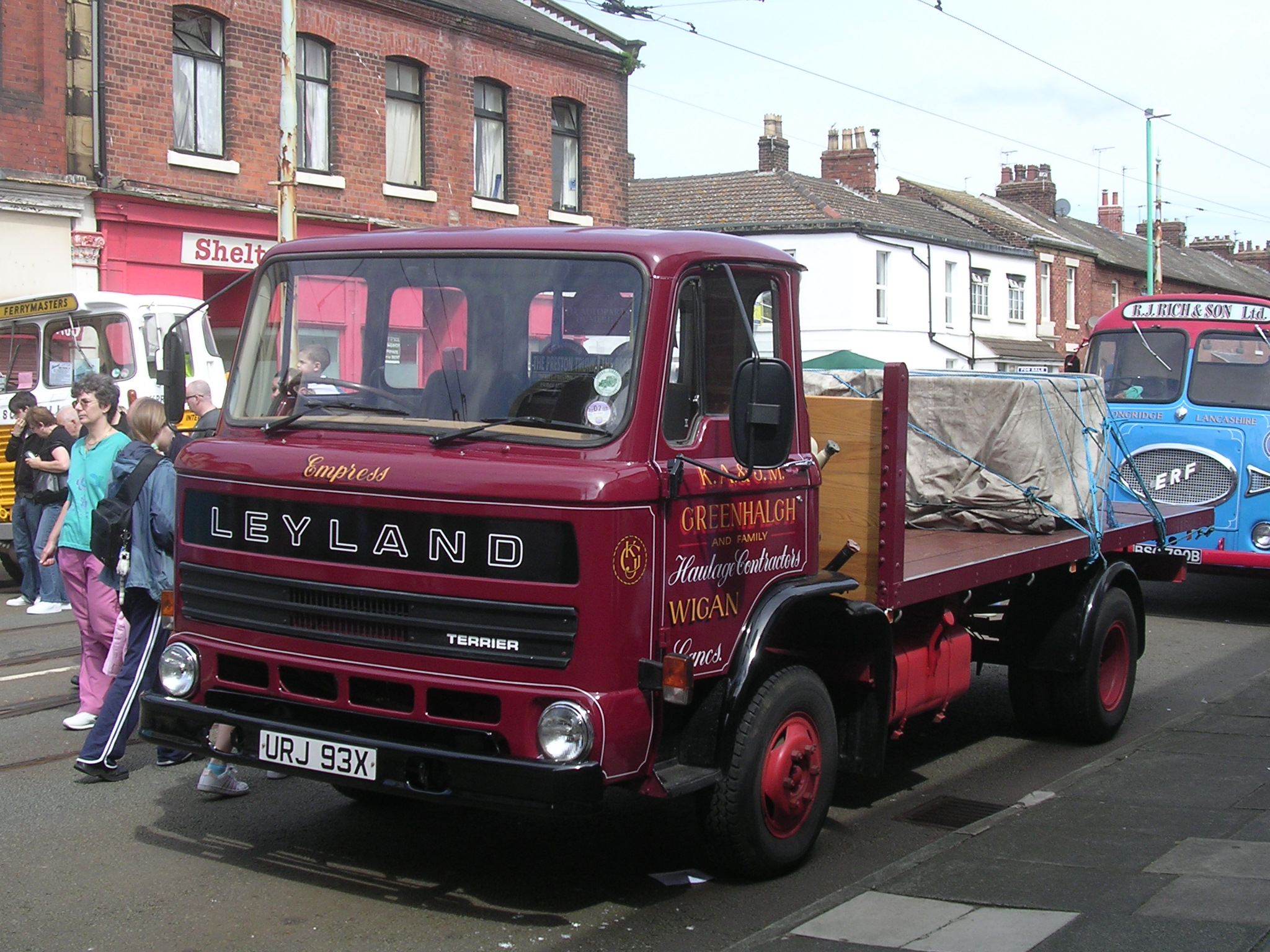 Leyland Terrier truck - 1981